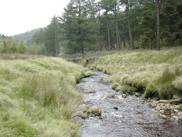 Bridge over River Westend in Derbyshire. OSGB36: geotagged! SK 14 93 [1000m precision] WGS84: 53:26.2848N 1:46.9917W